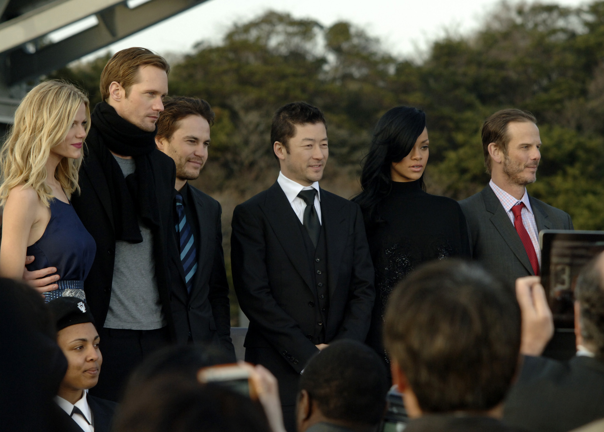 YOKOSUKA, Japan (April 2, 2012) Brooklyn Decker, Alexander Skarsgard, Taylor Kitsch, Tadanobu Asano, Robyn ÒRihannaÓ Fenty and Peter Berg, the cast and director of the movie ÒBattleshipÓ, pose for photos taken by international journalists on the flight deck of the Nimitz-class aircraft carrier USS George Washington (CVN 73) during a news conference. George Washington hosted a news conference between 150 international journalists and the director and cast of the movie ÒBattleshipÓ on the flight deck of the NavyÕs only full-time forward deployed aircraft carrier. (U.S. Navy photo by Mass Communication Specialist 2nd Class Alexander W. Cabrall/Released)